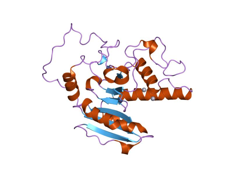 Cartoon representation of the molecular structure of protein registered with 1lz7 code.